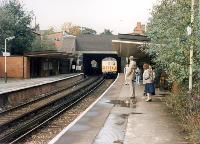 Whitefield Metrolink station Original description: Whitefield station 1988